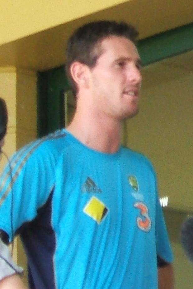 Shaun Tait at a training session at the Adelaide Oval